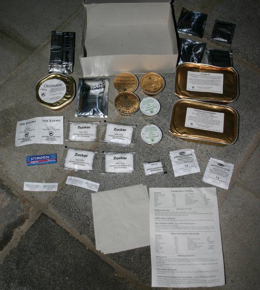 Contents of a German Einmannpackung (Combat Ration), mostly complete. Missing: chocolate.